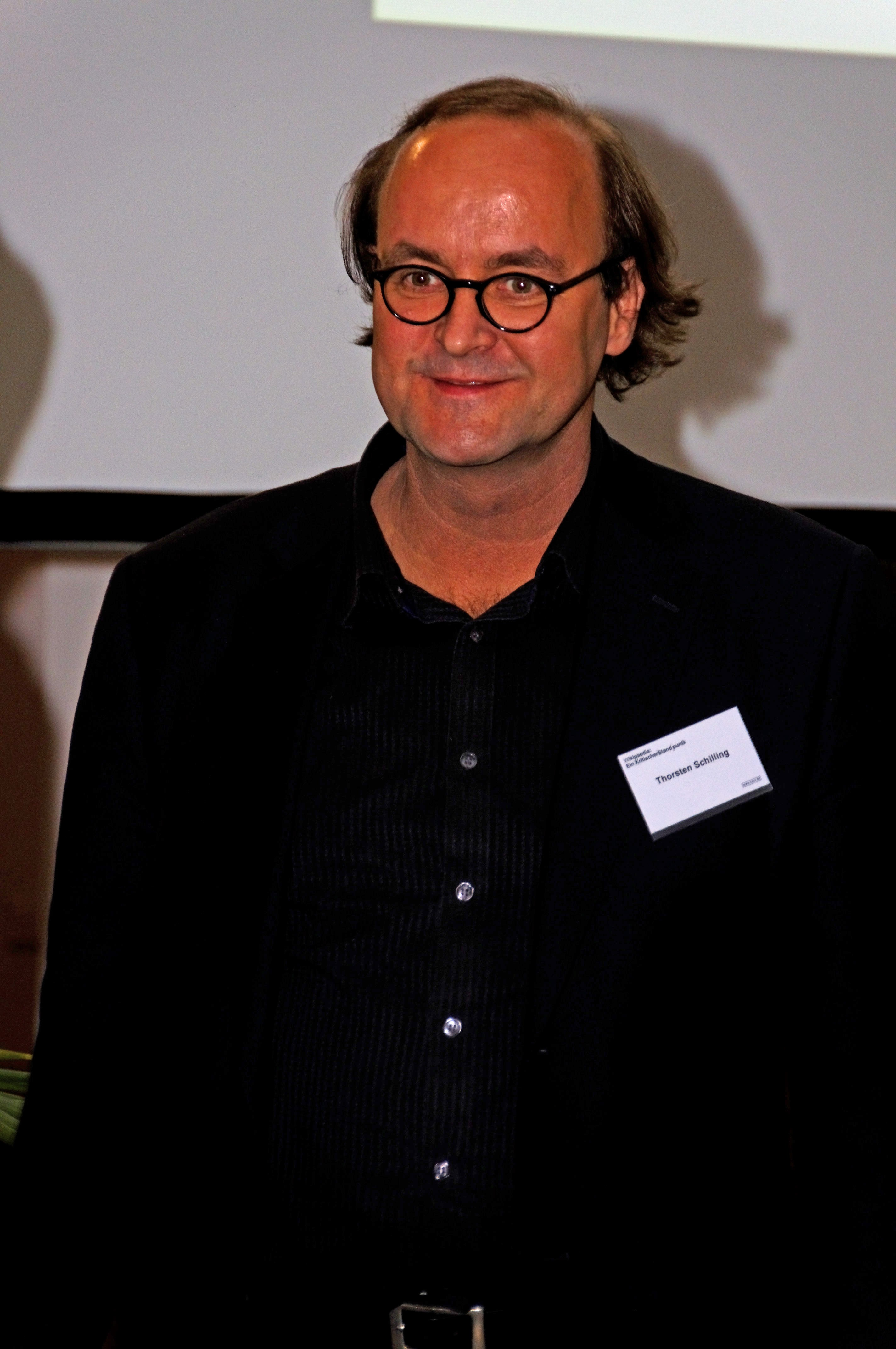 Wikipedia: A critical point of view. CPOV-Conference in Leipzig Germany; September 2010 Thorsten Schilling